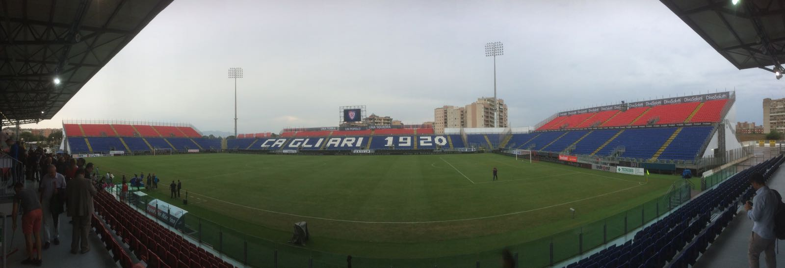 Panorama from Sardegna Arena, Cagliari.